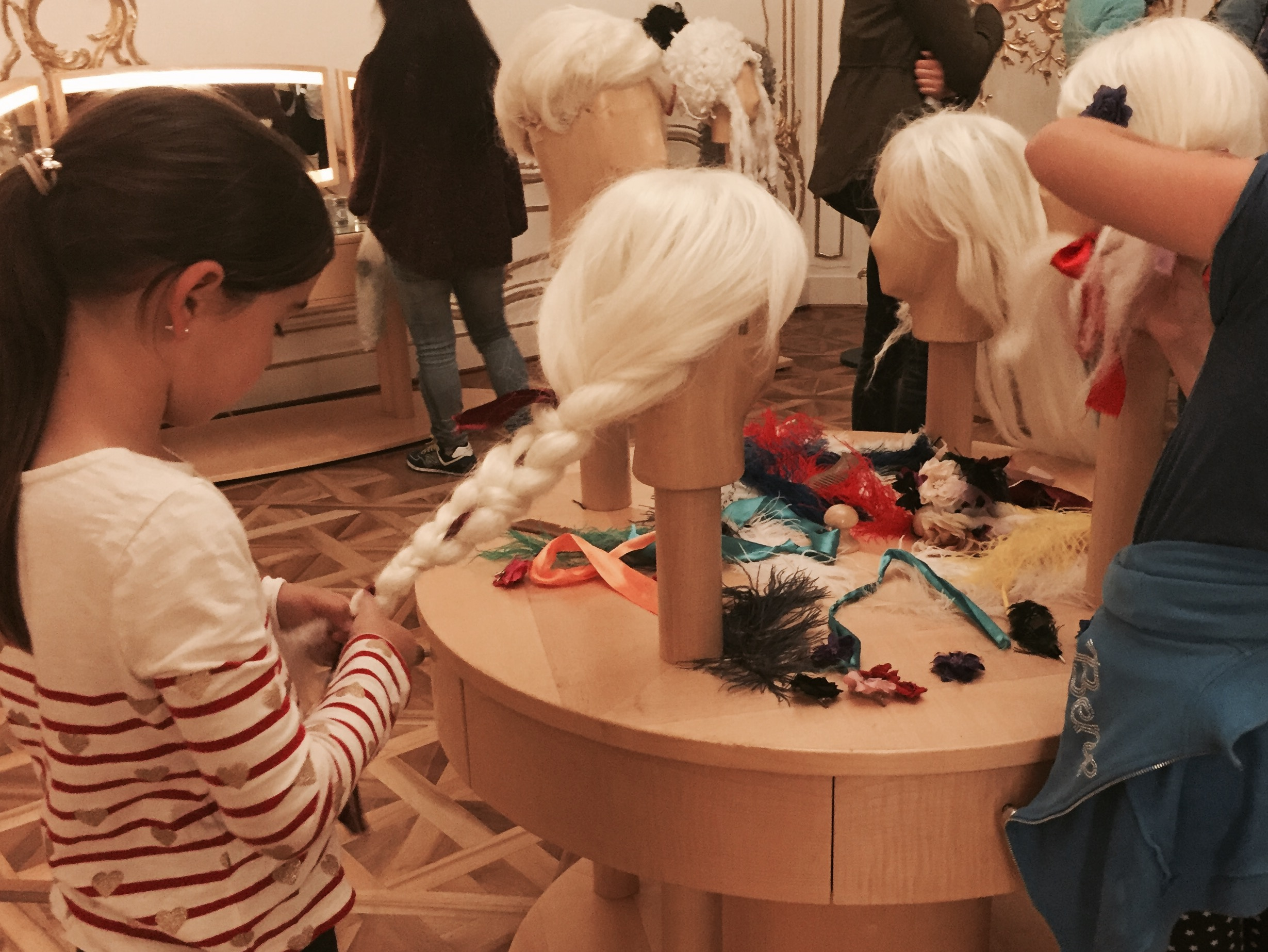 Kindermuseum_Sommeruni2016